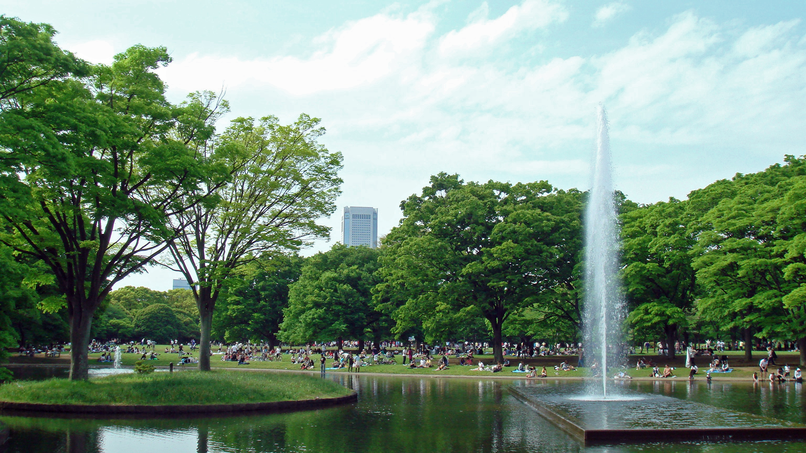 Fountain of Yoyogi-park at TOKYO on holiday